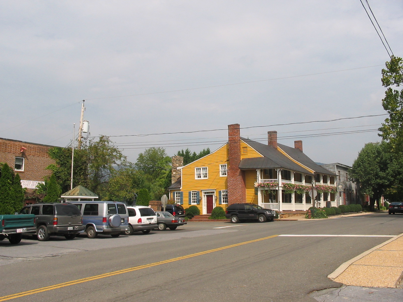 Image taken by me for Wikipedia